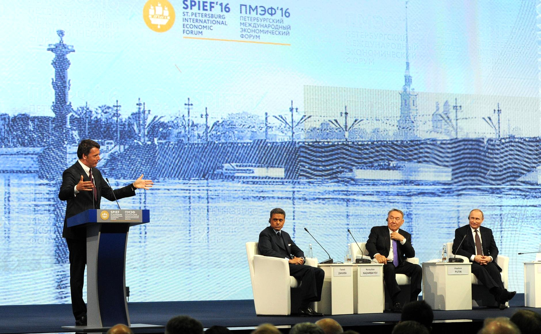 Plenary session of St Petersburg International Economic Forum (2016-06-17)